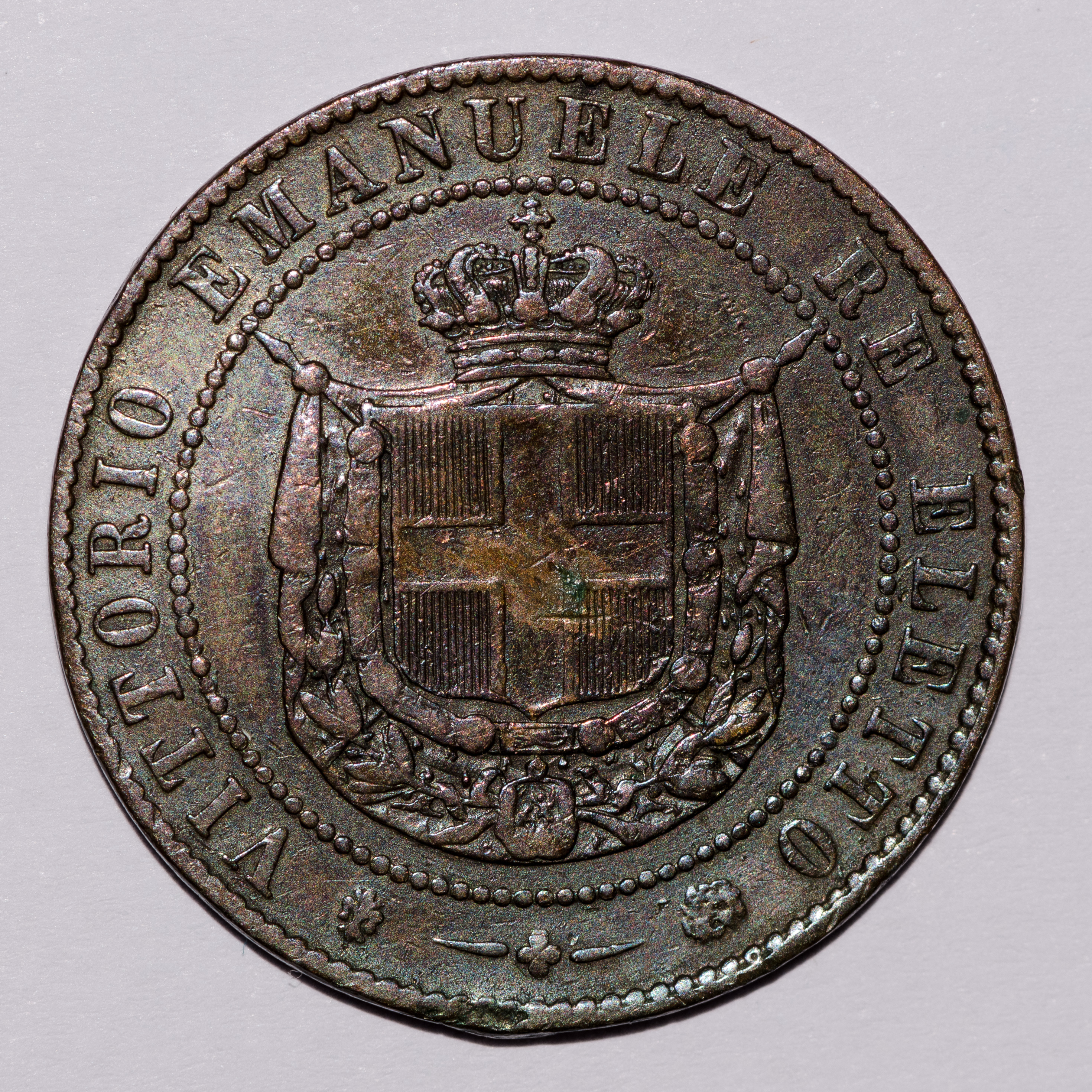 5 Centesimi coin, 1859 from Toscany, back